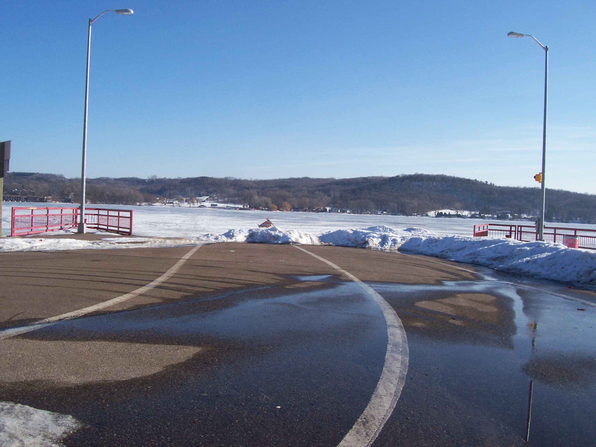 The western docks for the Merrimac Ferry in Sauk County, Wisconsin. Wisconsin Highway 113 crosses the Wisconsin River at this location.